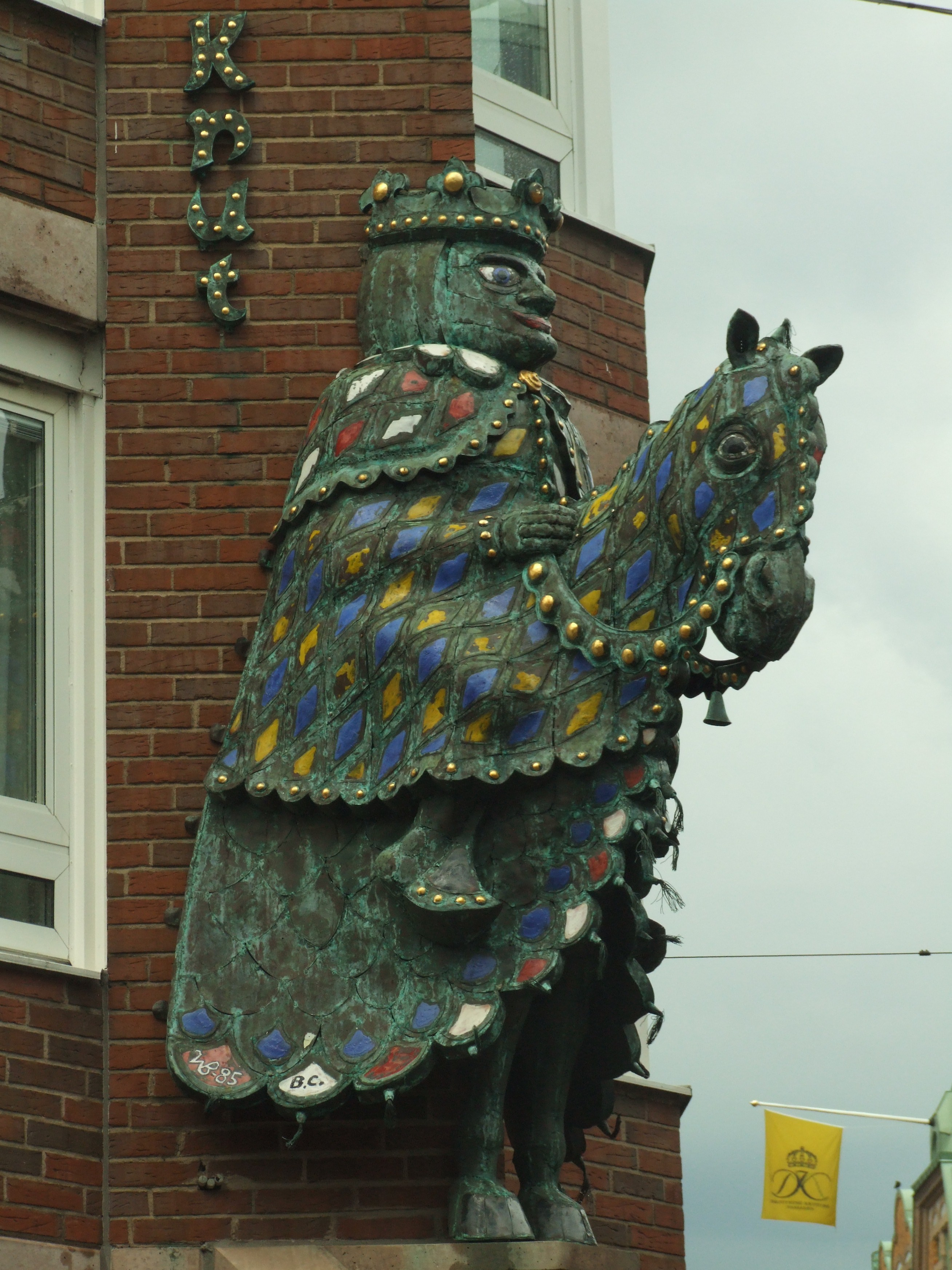 This one's Swedish, though, and I don't know his name.